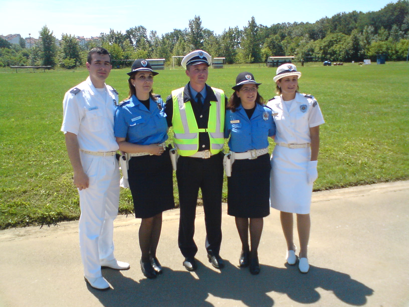 Members of Traffic Police in Serbia